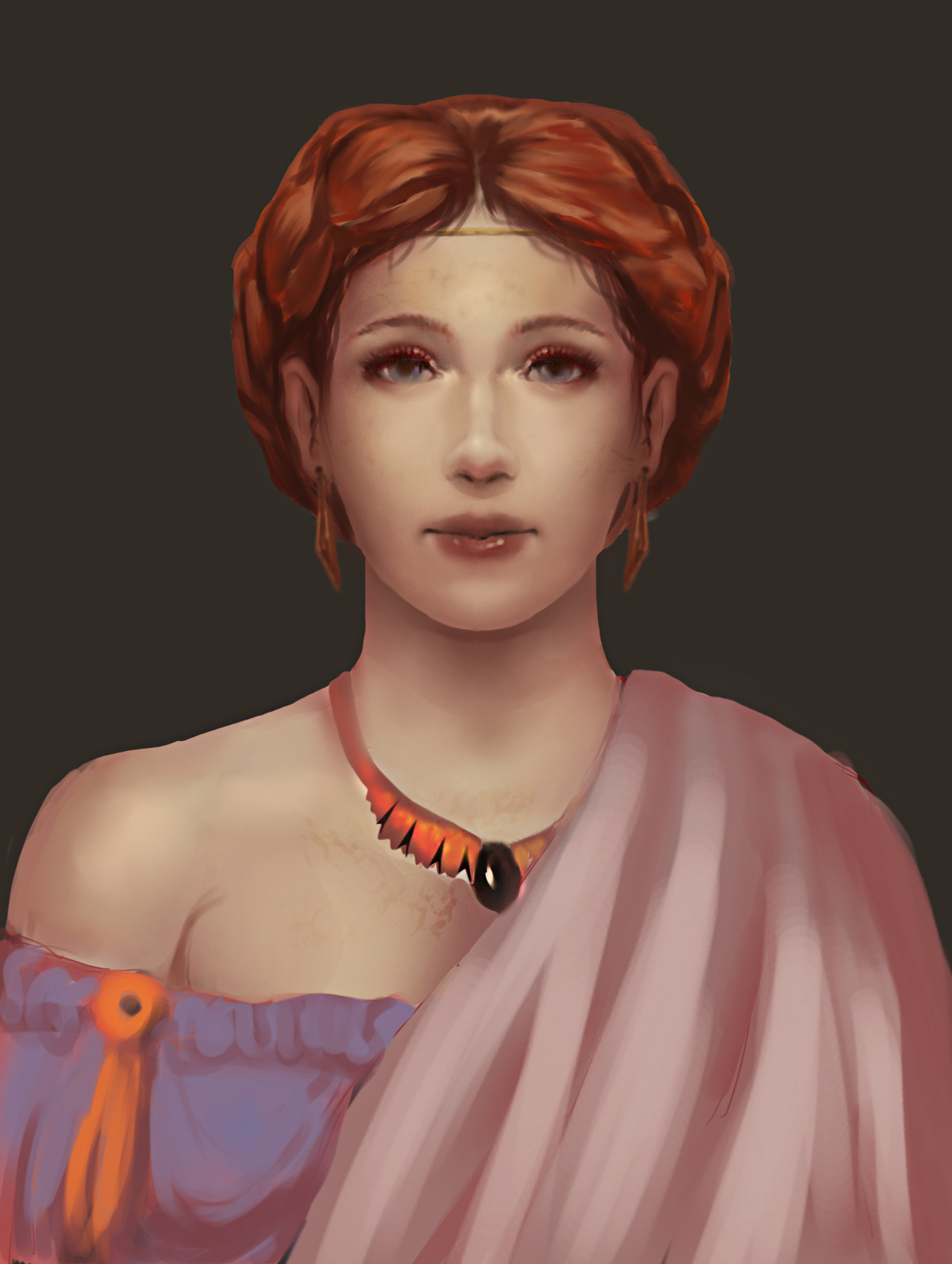 servilia´s portrait